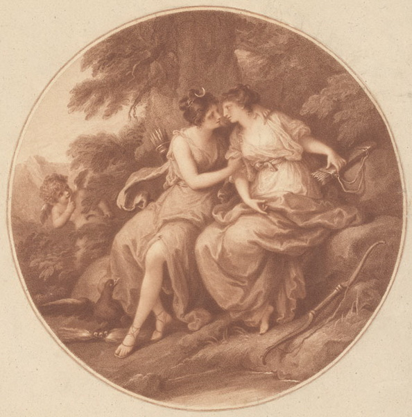 Jupiter and Callisto Engraving by Thomas Burke (1749−1815).